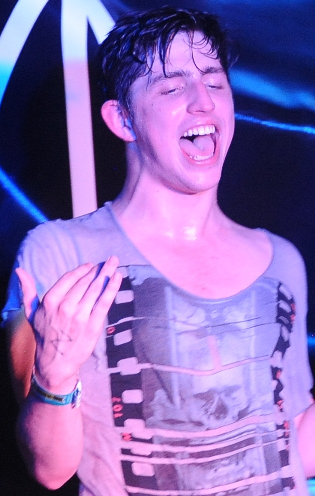 Porter Robinson at the 2012 South by Southwest (SXSW) on March 16, 2012.